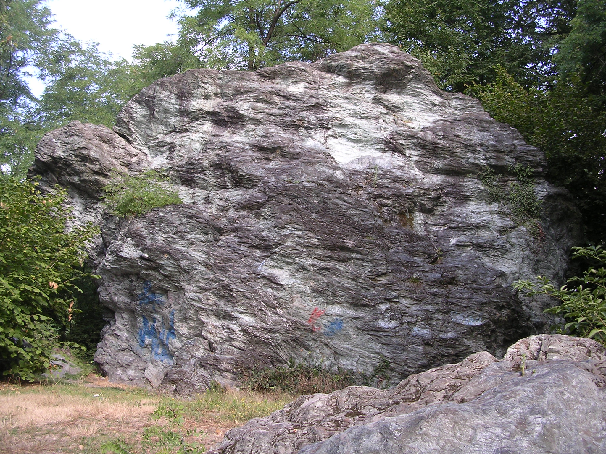 "Preia Buia" Rock in Sesto Calende (Va), Italy